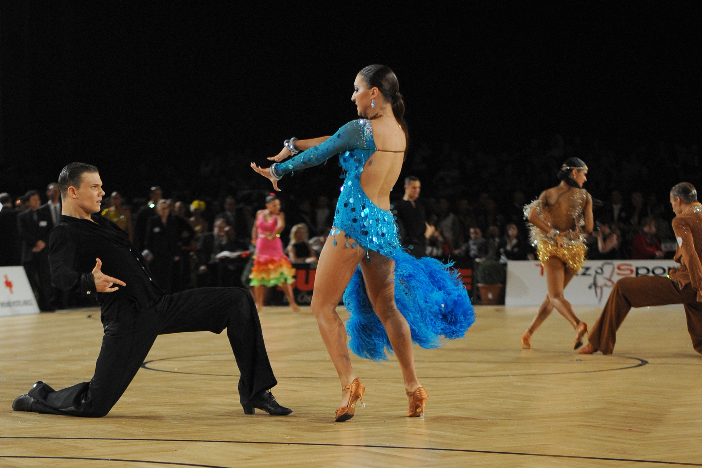 Austrian Open Championships Vienna, 2012 WDSF World Dancesport Championships Latin 16.-18. November 2012 The making of this work was supported by Wikimedia Austria. For other files made with the support of Wikimedia Austria, please see the category Supported by Wikimedia Österreich. Personality rights warning Although this work is freely licensed or in the public domain, the person(s) shown may have rights that legally restrict certain re-uses unless those depicted consent to such uses. In these cases, a model release or other evidence of consent could protect you from infringement claims.